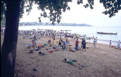 Fishermen land their catch in Sao Tomé ::Photograph taken in January 2002 by Henryk Kotowski and is released under the terms of GNU GFDL